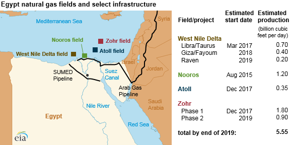 The startup of a number of natural gas development projects located offshore in the eastern Mediterranean Sea near Egypt’s northern coast has significantly altered the outlook for the region’s natural gas markets. August 14, 2018